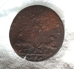 Photo taken by Kyra McCormick, Becca Leon, and LisaMarie Malischke